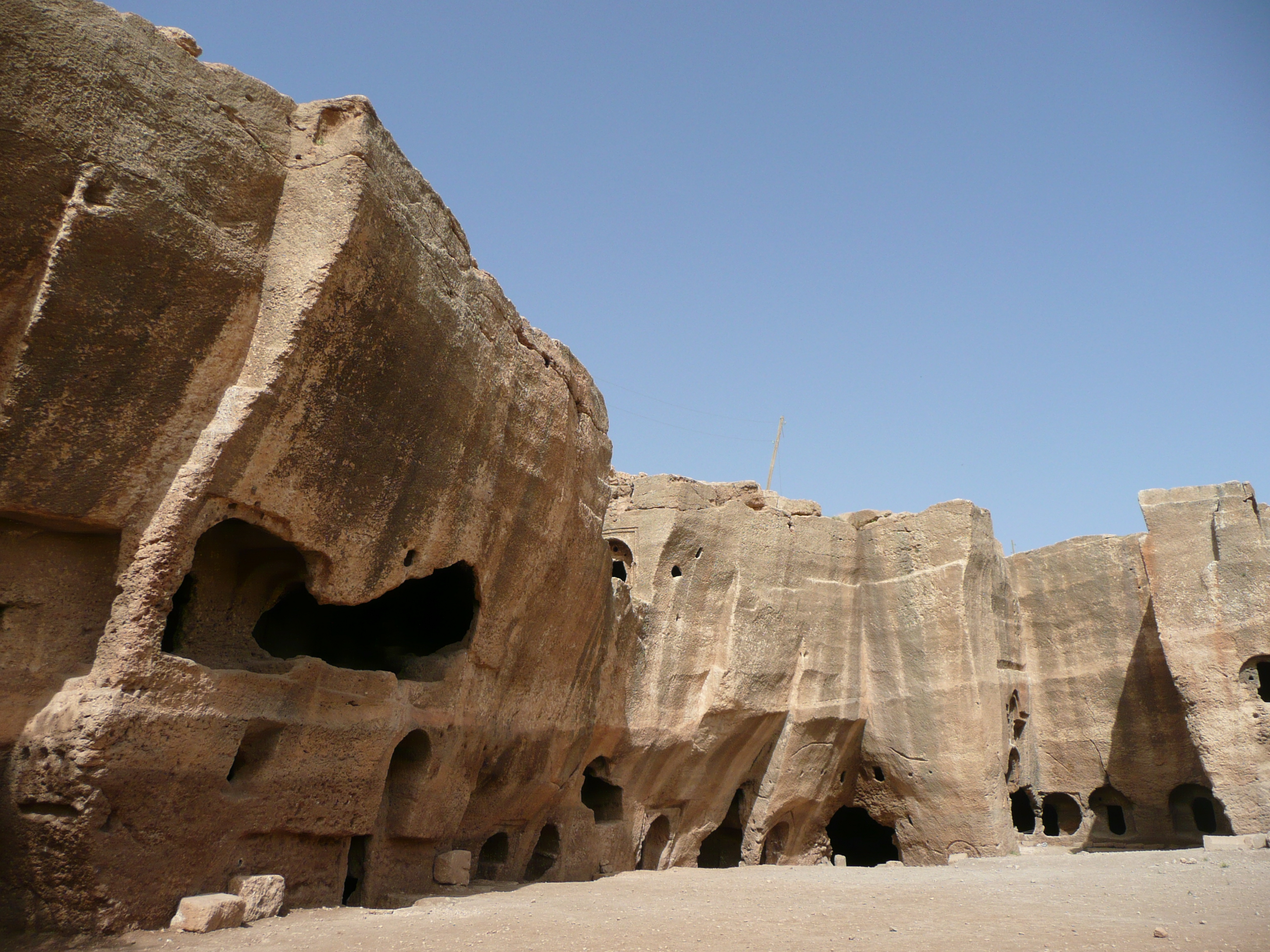 Photographs from Dara, Mardin, Turkey